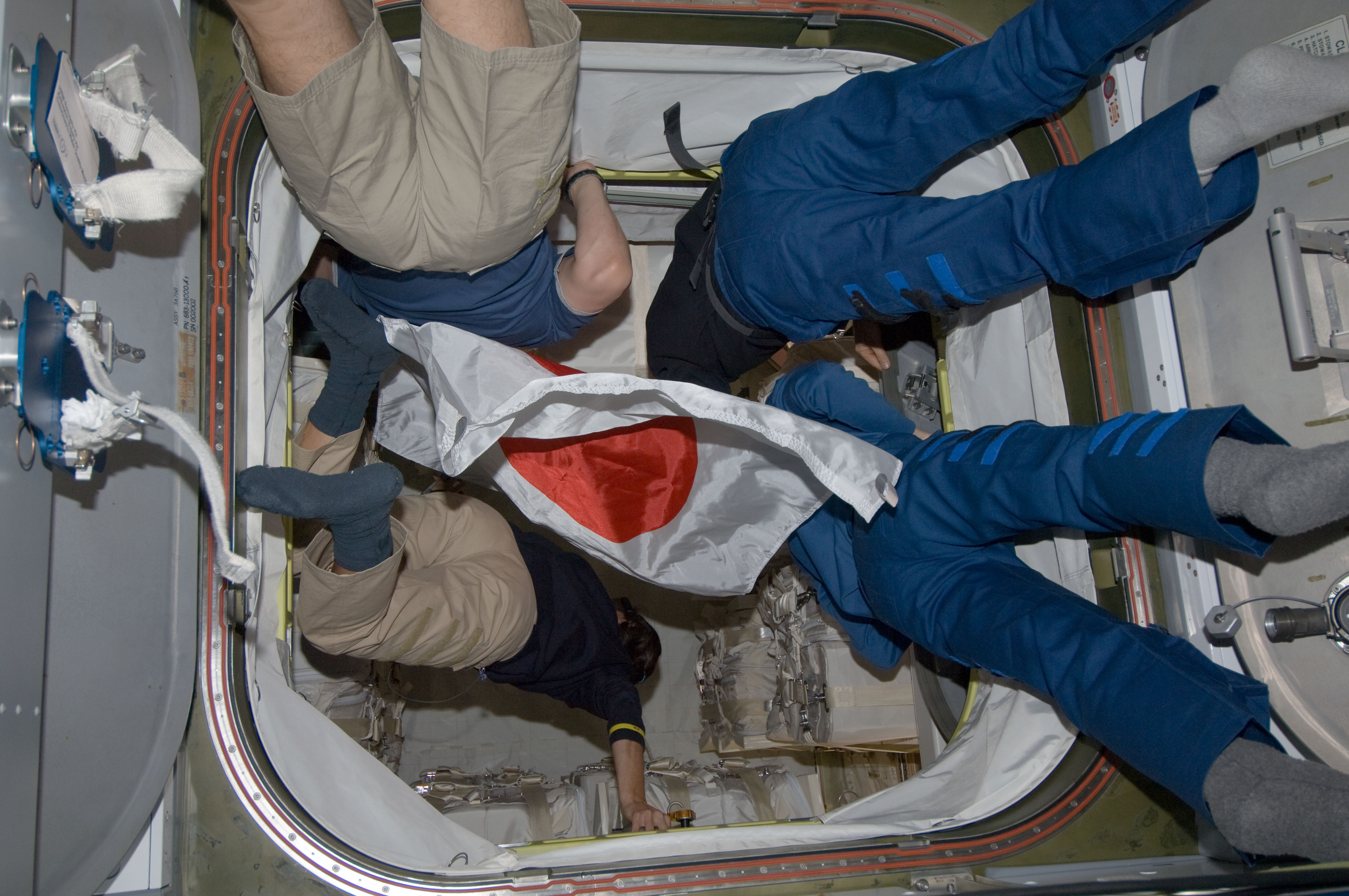 Expedition 20 crew members enter the newly attached Japanese H-II Transfer Vehicle (HTV) docked to the Harmony node of the International Space Station. The HTV attachment was completed at 5:26 p.m. on Sept. 17, 2009.